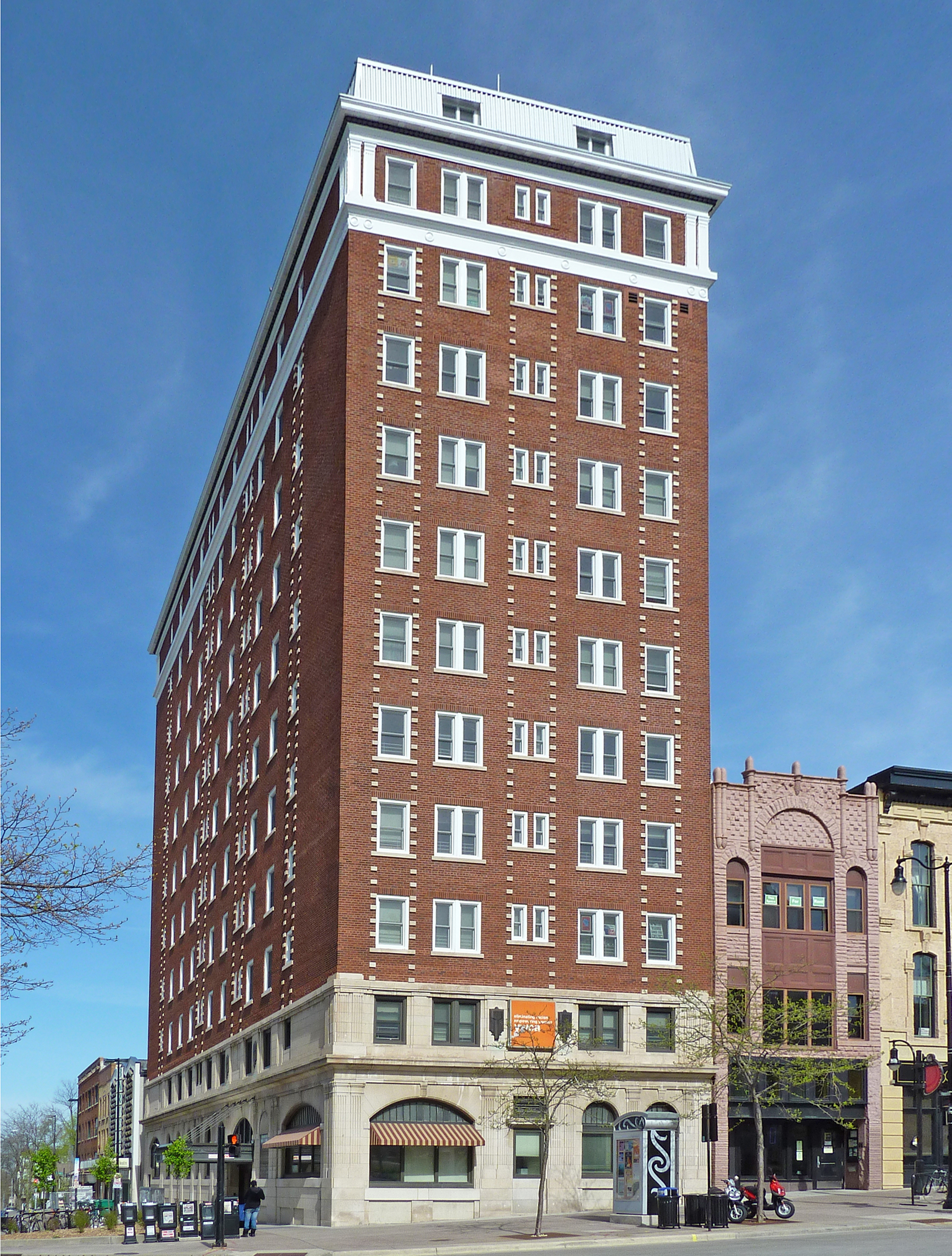 The former Belmont Hotel at 101 E. Mifflin Street at the intersection of Pinckney Street on the Capitol Square in Madison, Wisconsin, was constructed in 1924 in a Neo-Classical Beaux Arts style. An 11-story building virtually adjacent to the State Capitol, its erection prompted legislation to limit building heights in Madison, Wisconsin, in order to protect views of the Capitol. Built to accommodate business travelers, the building was purchased by the YWCA in 1968. It was added to the National Register of Historic Places in 1990.